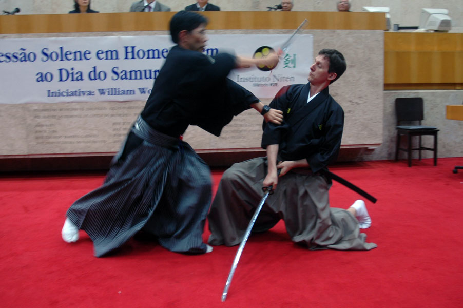 Jitte demonstration in the commemoration of the Day of the Samurai, in São Paulo, Brazil. Sensei Jorge Kishikawa demonstrating Jitte technique of Ikkaku Ryu